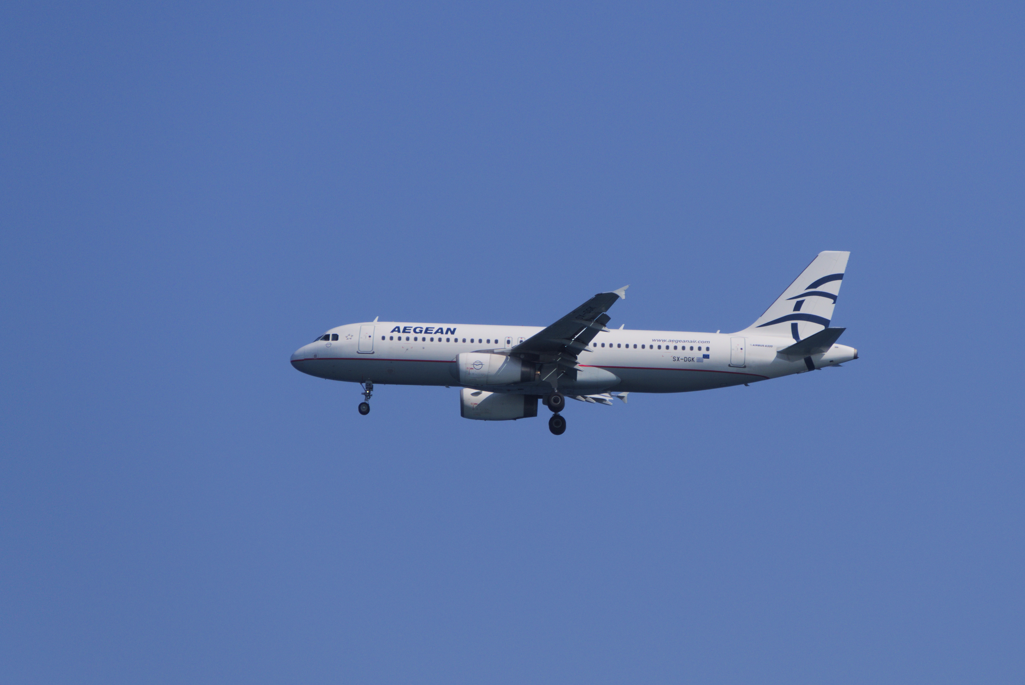 Aegean Airbus A320 SX-DGK approaching the airport of Heraklion.